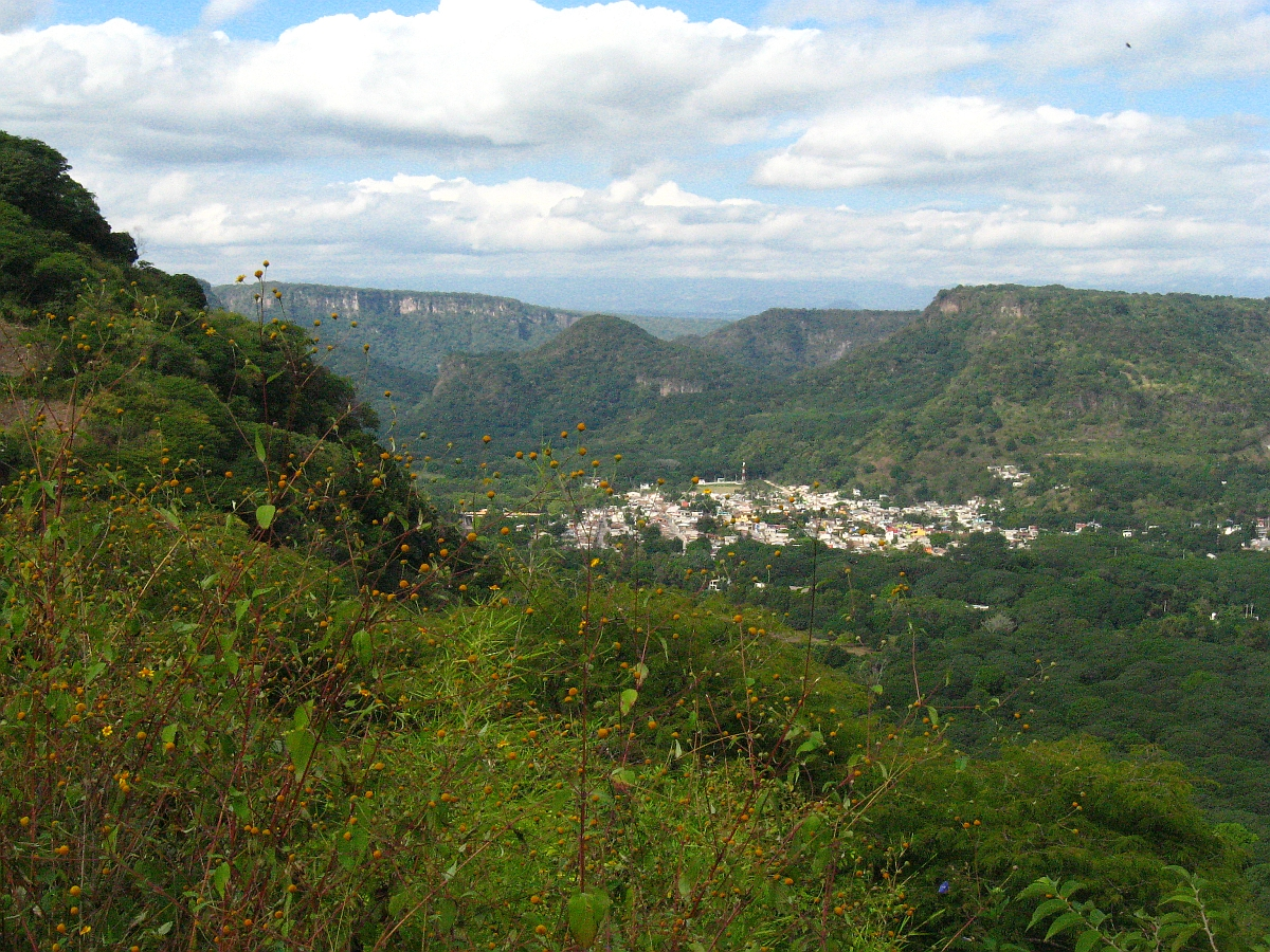 View over the village of Jalcomulco, Veracruz, Mexico. Seen from the south east.